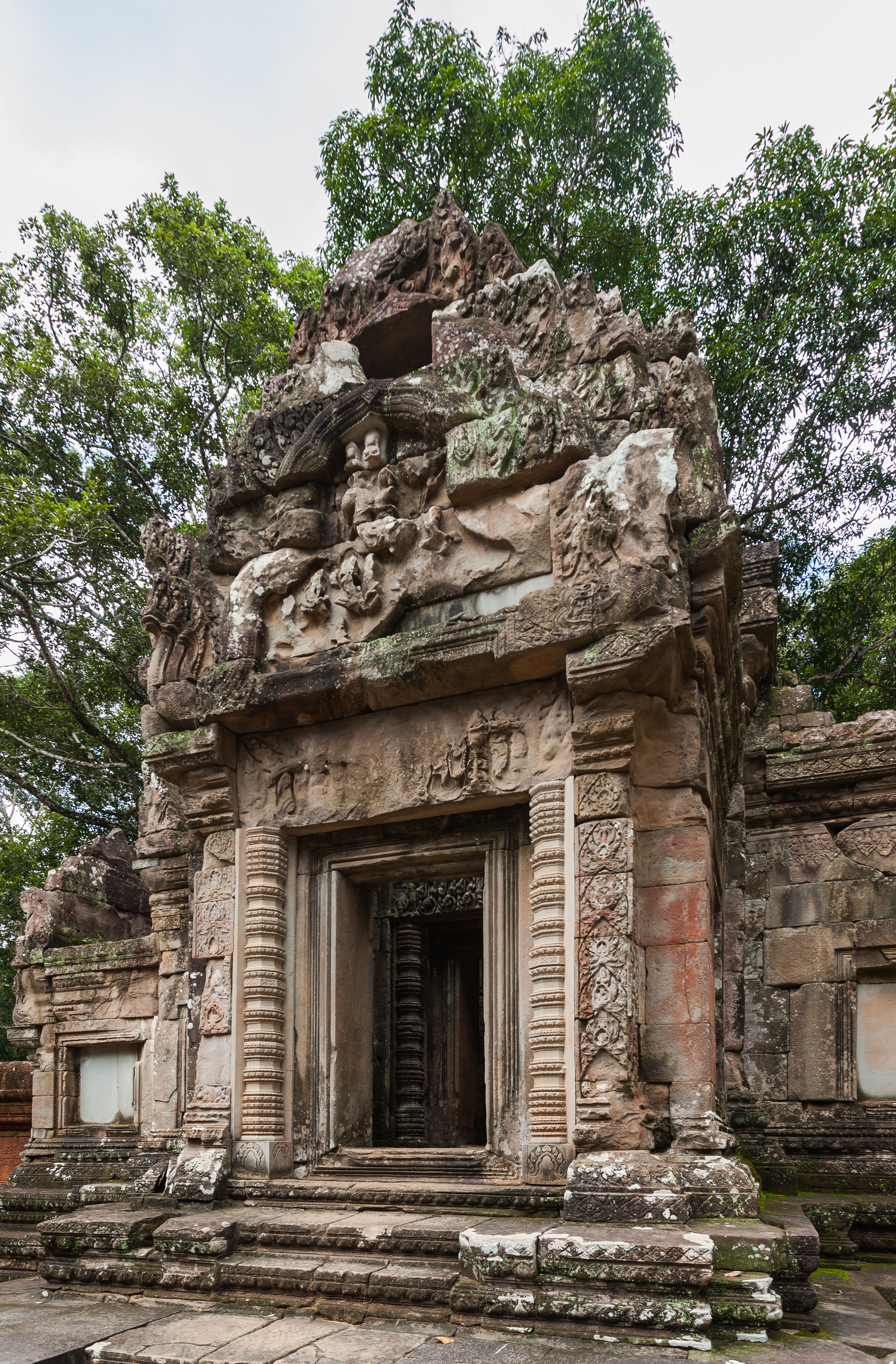 Chao Say Tevoda, Angkor, Cambodia